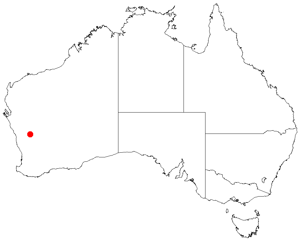 Acacia woodmaniorum occurrence data from Australasia Virtual Herbarium downloaded from on 8 December 2018